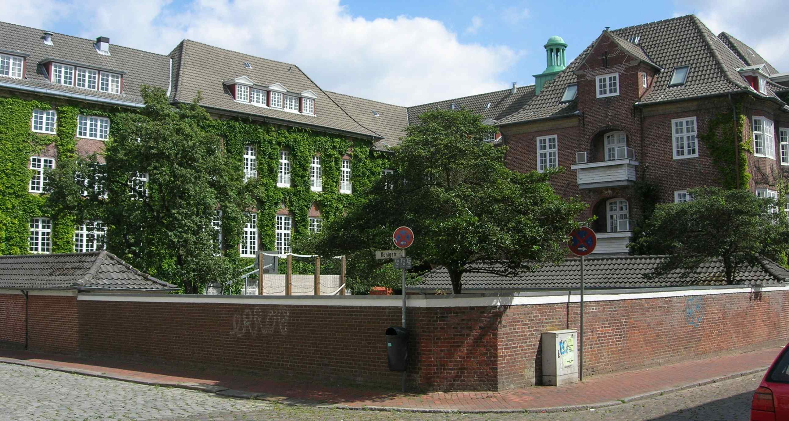 Duborg-Skolen in Flensburg. Duborg-Skolen(Danish for Duburg-School) is a Danish upper secondary school in Flensburg in Germany.